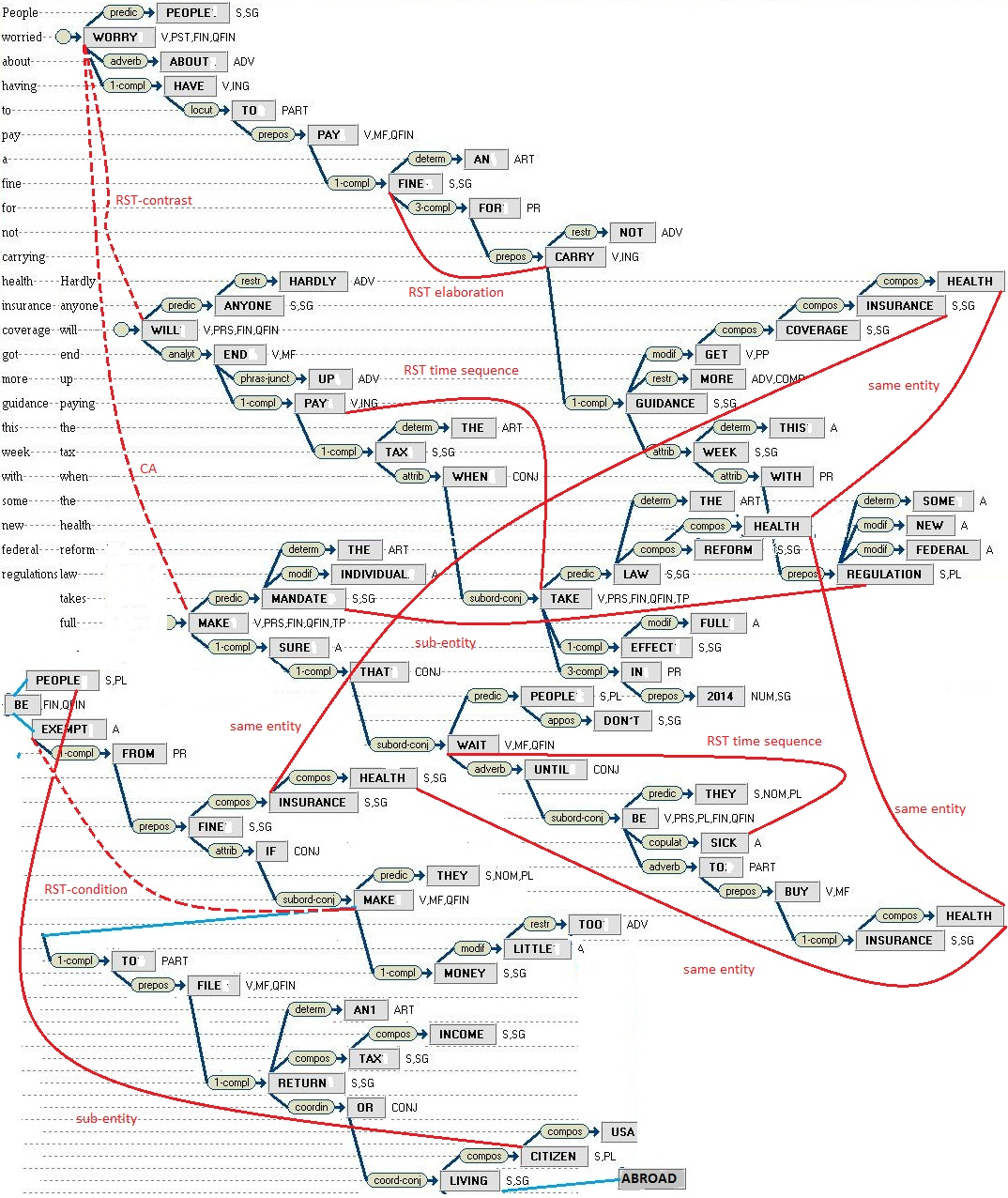 This is manually edited image of a set of parse trees with nodes connected by rhetoric relations